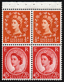 A booklet pane of four stamps from the Wilding series.